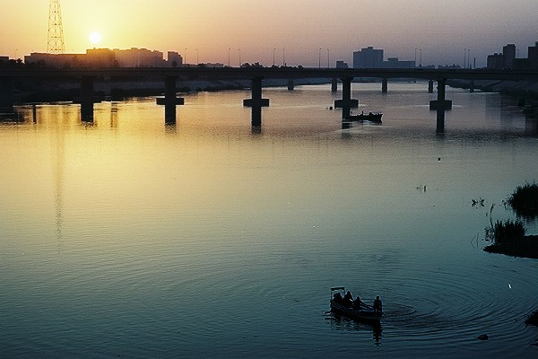 Baghdad, capital of Iraq